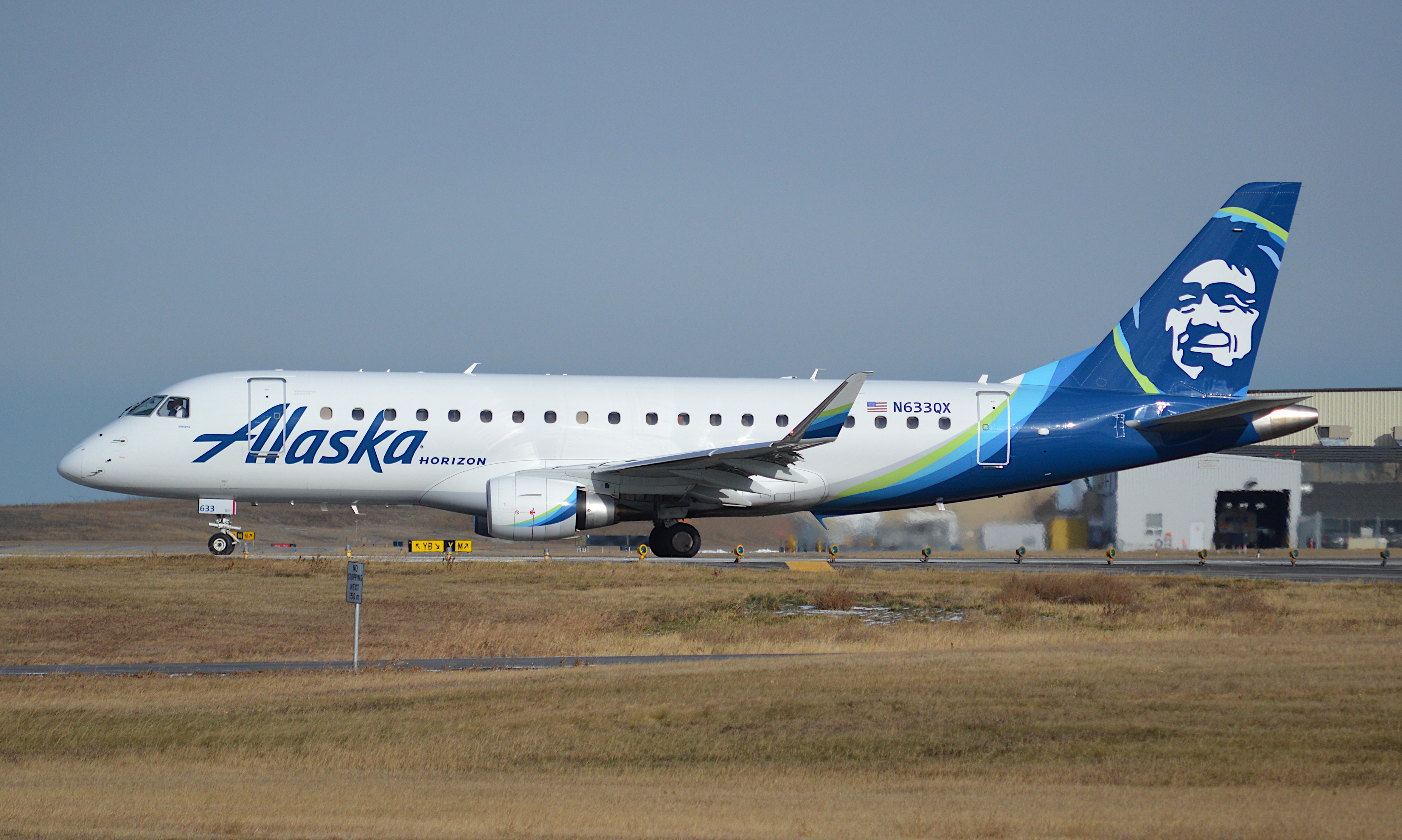 Horizon Air Embraer 175 N633QX taxiing for takeoff on runway 15R at Calgary International Airport, November 9, 2018.